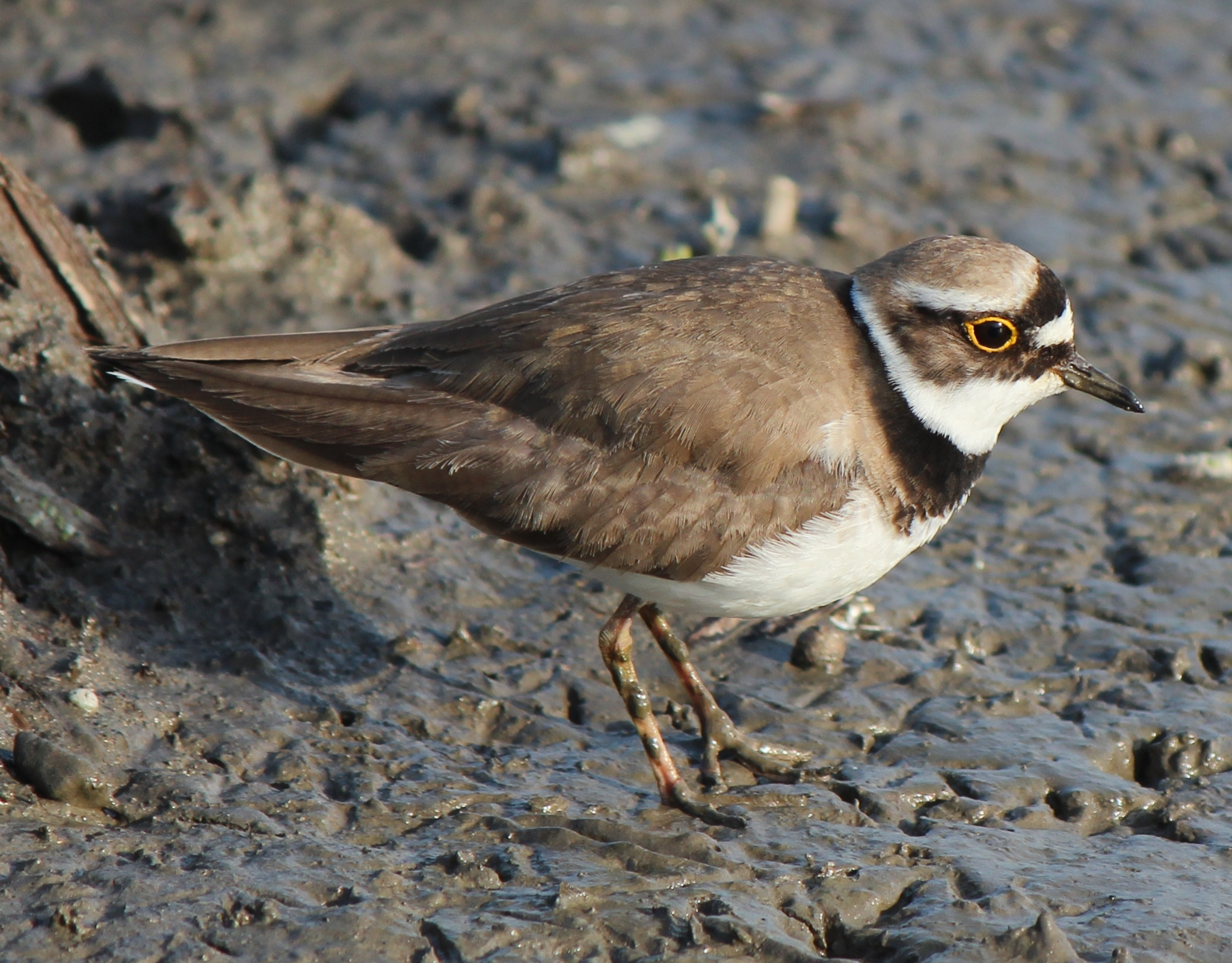 Charadrius dubius curonicus (Little Ringed Plover), in Japan.